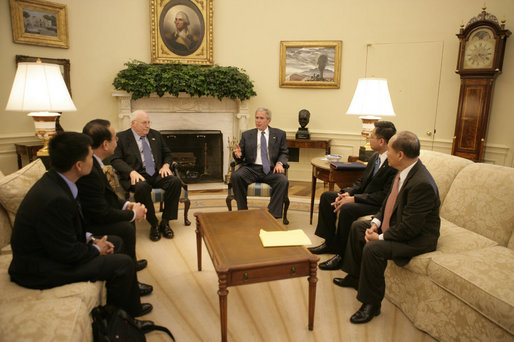 US President George Bush and Vice President Dick Cheney meet with Vietnamese Democracy and Human Rights Activists on May 29th 2007. From left to right: Thanh Cong Do, founding member of People's Democratic Party of Vietnam; Nguyen Le Minh, Vietnam Human Rights Network chair; Vice Presient Dick Cheney, U.S. President George W. Bush, Diem Do, Vietnam Reform Party chairman; and Quan Nguyen, chair of the International Committee For Freedom To Support The Non-Violent Movement For Human Rights In Vietnam Bush was meeting with the four U.S. citizens to show disapproval of the Vietnam government's harsh treatment of its opponents.